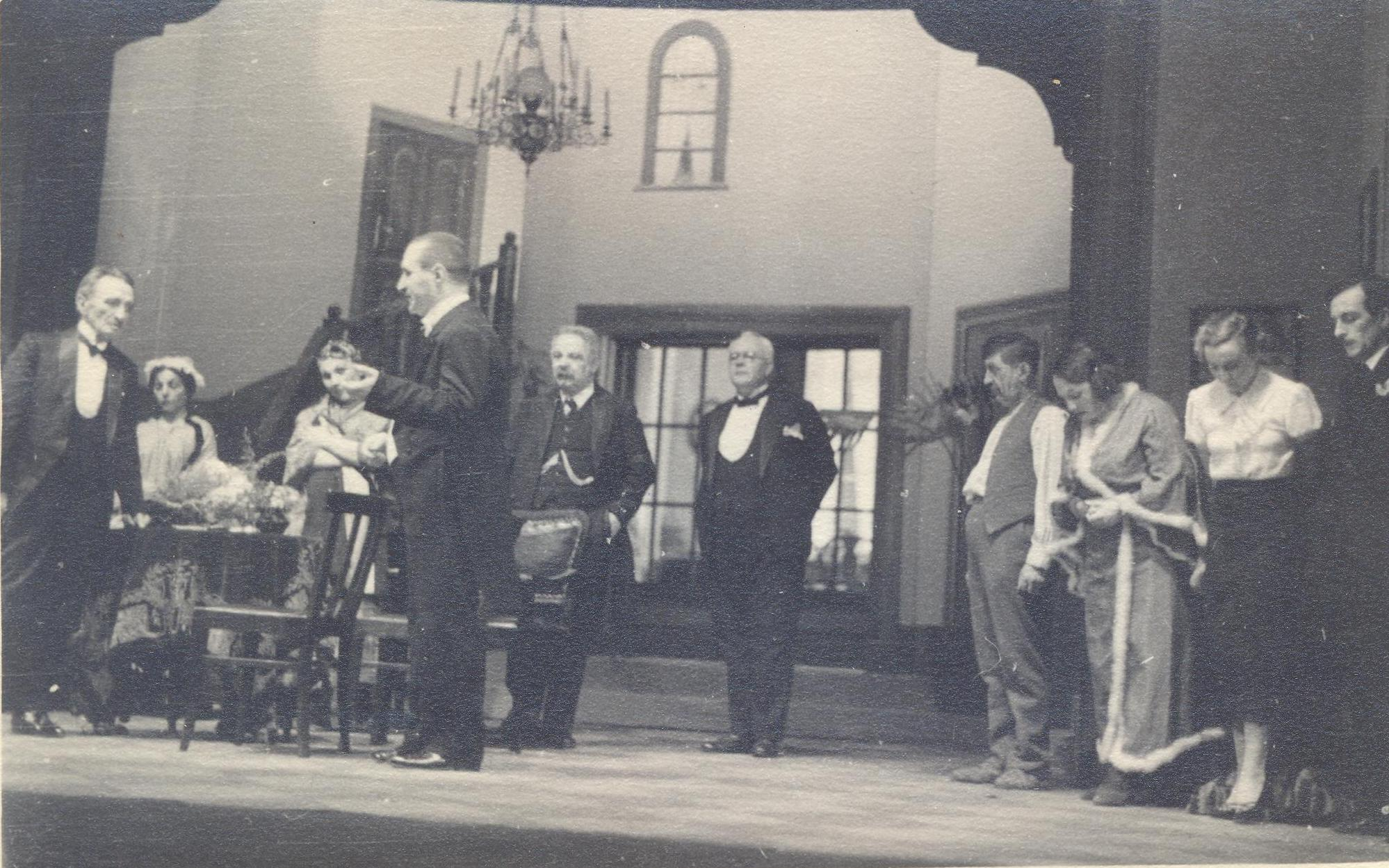 Branislav Nušić in Bulgaria, 1935.